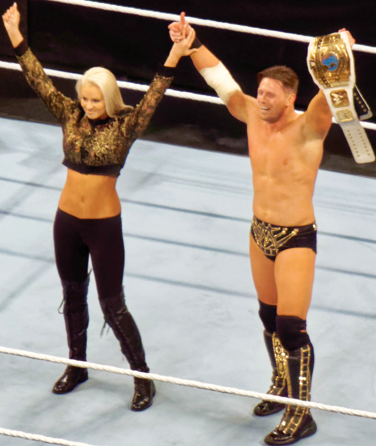 Maryse posing with her real-life husband The Miz after winning the WWE Intercontinental Championship the night after WrestleMania 32 in April 4, 2016.